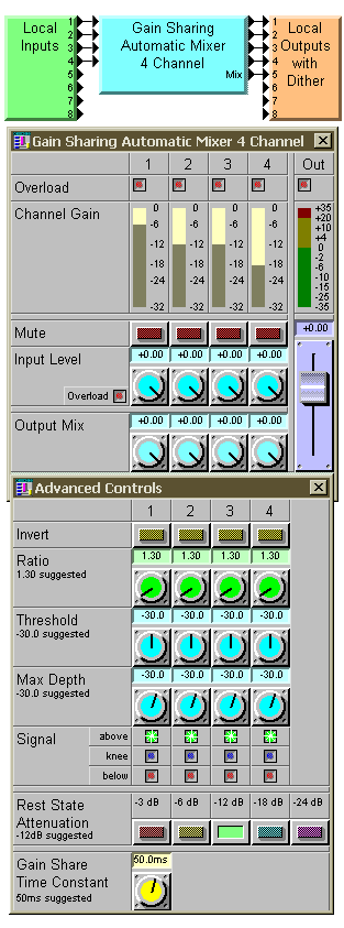 Screenshot from the graphic user interface of a Peavey Mediamatrix X-Ware, showing a four-channel automixer and its advanced controls.